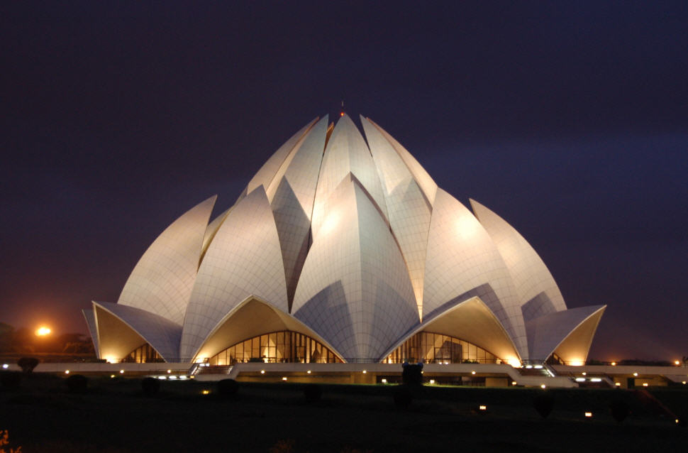 Lotus Temple, located in New Delhi, India.